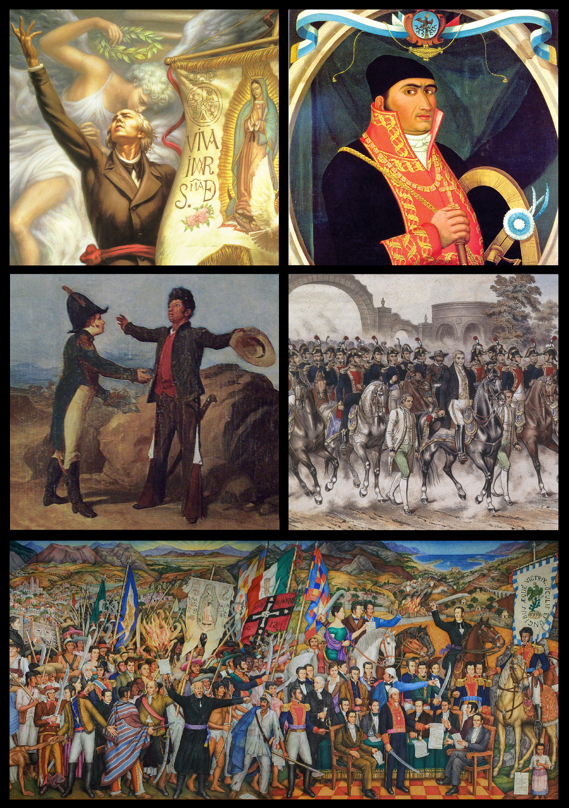 A collage of the different stages in the Mexican War of Independence.